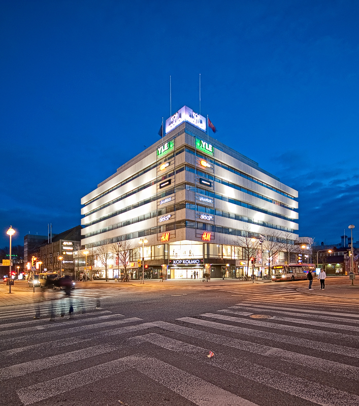 KOP-Kolmio Shopping Center on a spring evening in Turku, Finland.